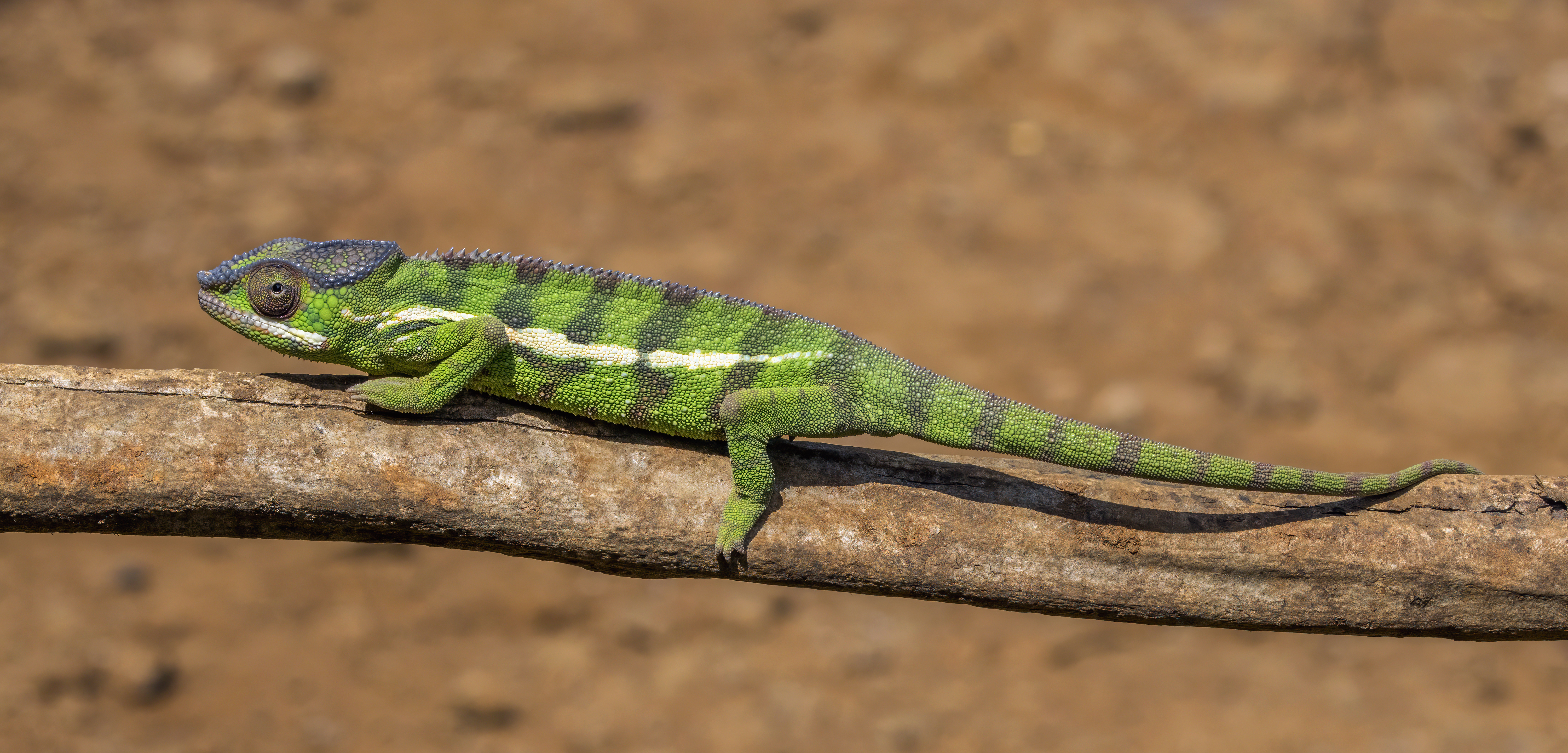 Panther chameleon (Furcifer pardalis) male, Montagne d’Ambre, Madagascar. Joffreville locale. There is doubt about the number of possible species or subspecies of Furcifer pardalis. There may be as many as fourteen. The males can be described as colour morphs or forms; the females with their cryptic colouring are very difficult to tell apart. At the moment, the safest definition is to define locale or specific location.